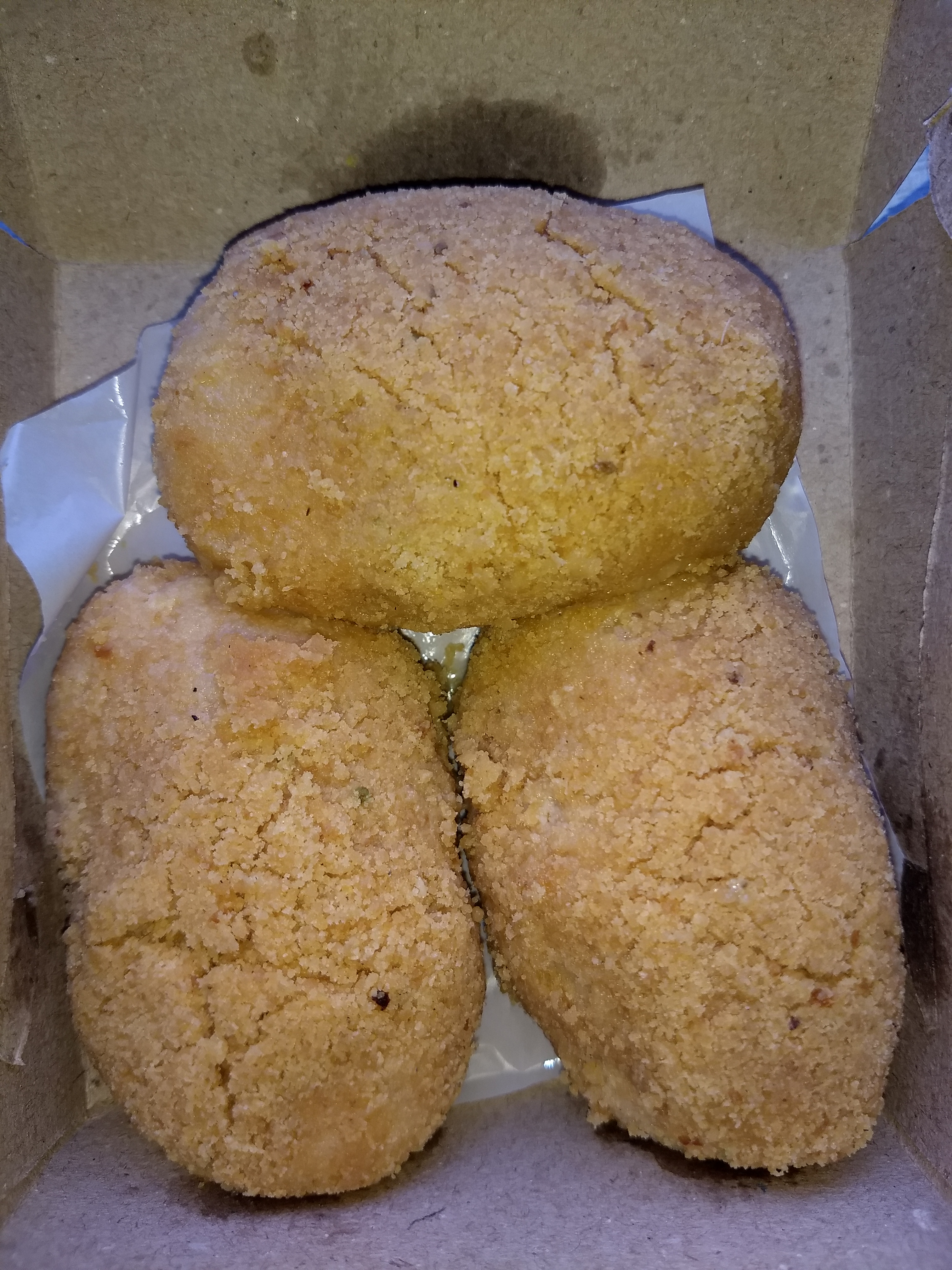 Kansat (bengali swerts)